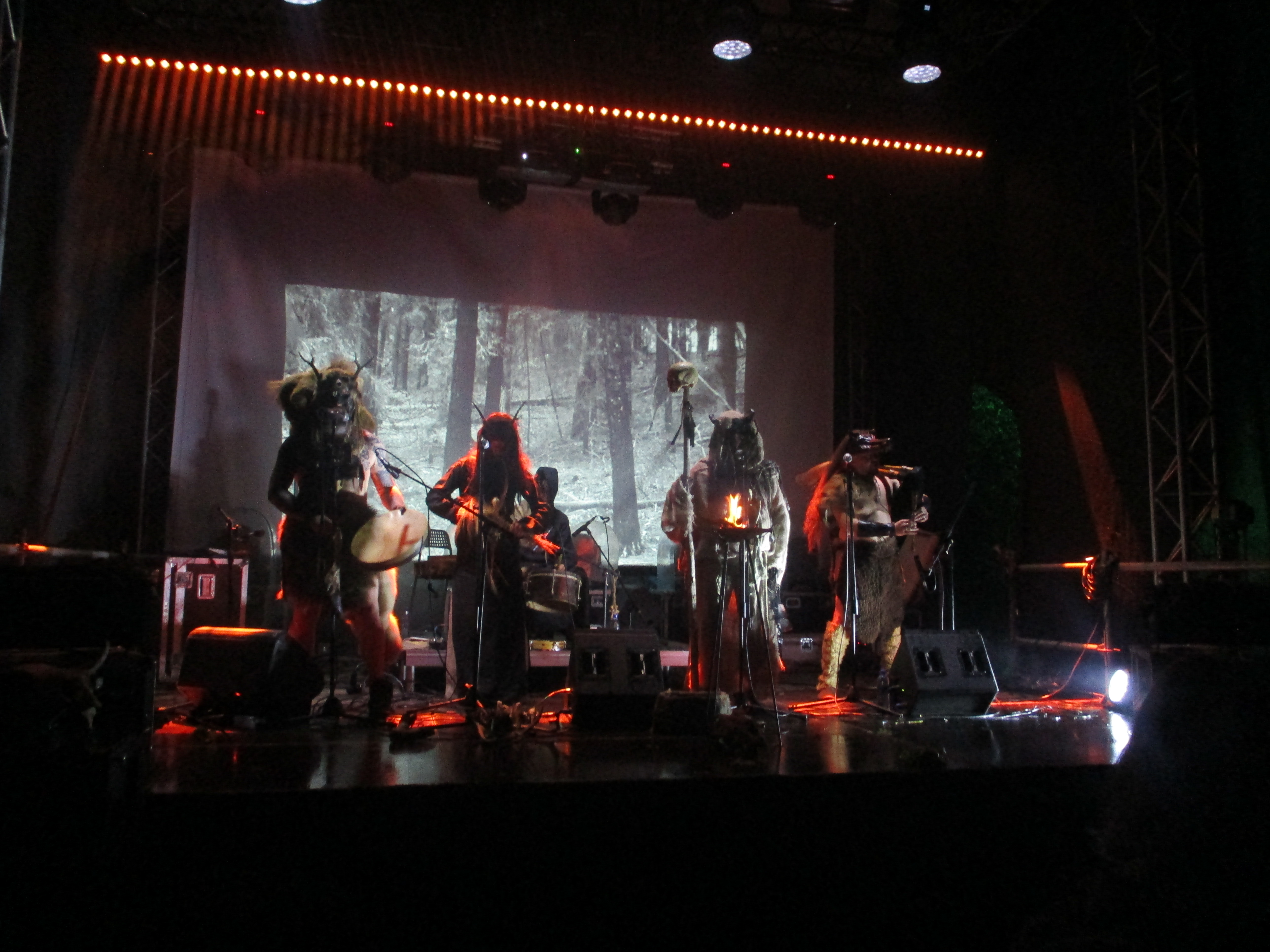 Pragnavit performing on the Mėnuo Juodaragis Shiver Stage, August 25, 2018.